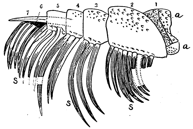 Charles D. Walcott: Description of a New Genus of the Order Eurypterida from the Utica Slate. The American Journal of Science. Third series, Vol. XXIII, No. 135, page 214, figure 2